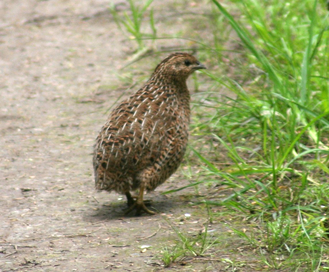 The Brown Quail (Coturnix ypsilophorus), Tiritiri Matangi Island, New Zealand